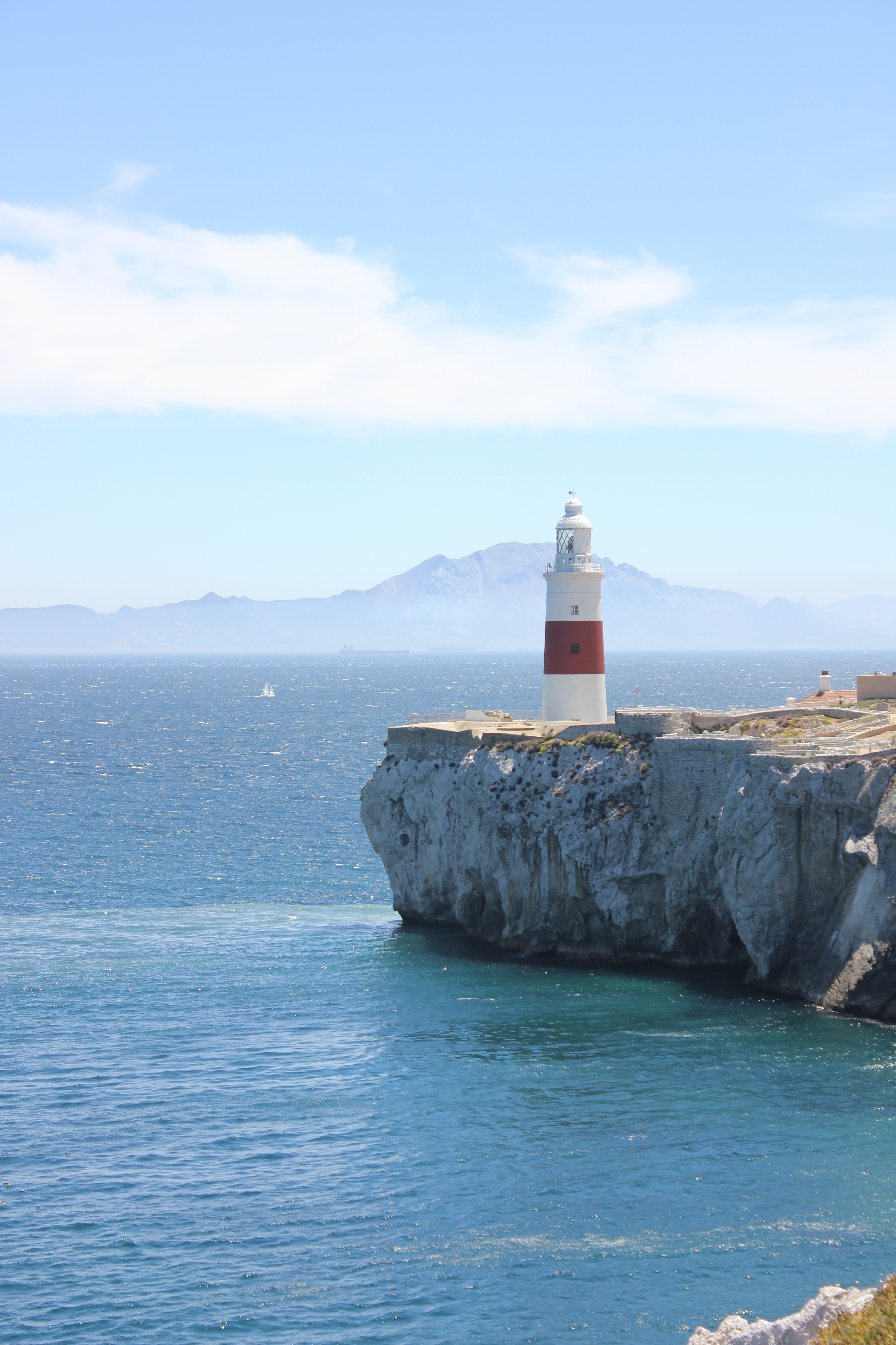 Europa Point, Gibraltar, Jebel Musa (Morocco) can be seen in the background